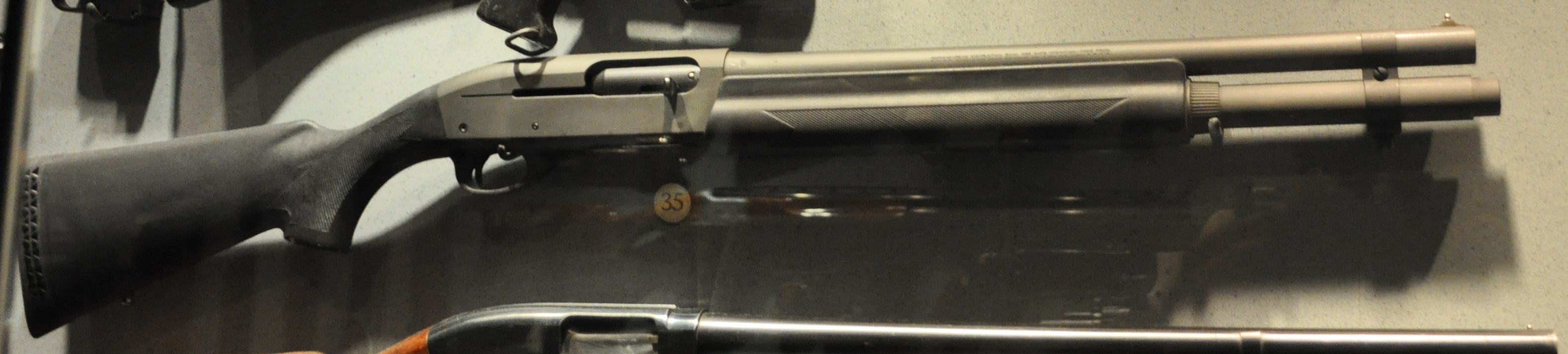 Remington 11-87 Police Shotgun. Manufactured in Illion, NY. On display at the National Firearm Museum.